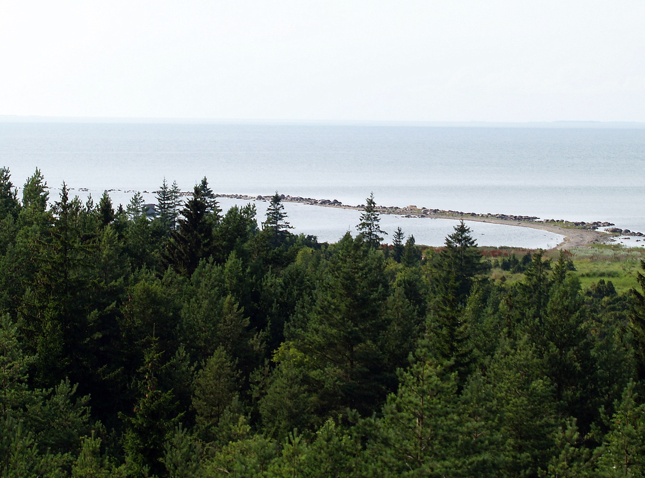 Suursäär at island Kesselaid in Estonia.